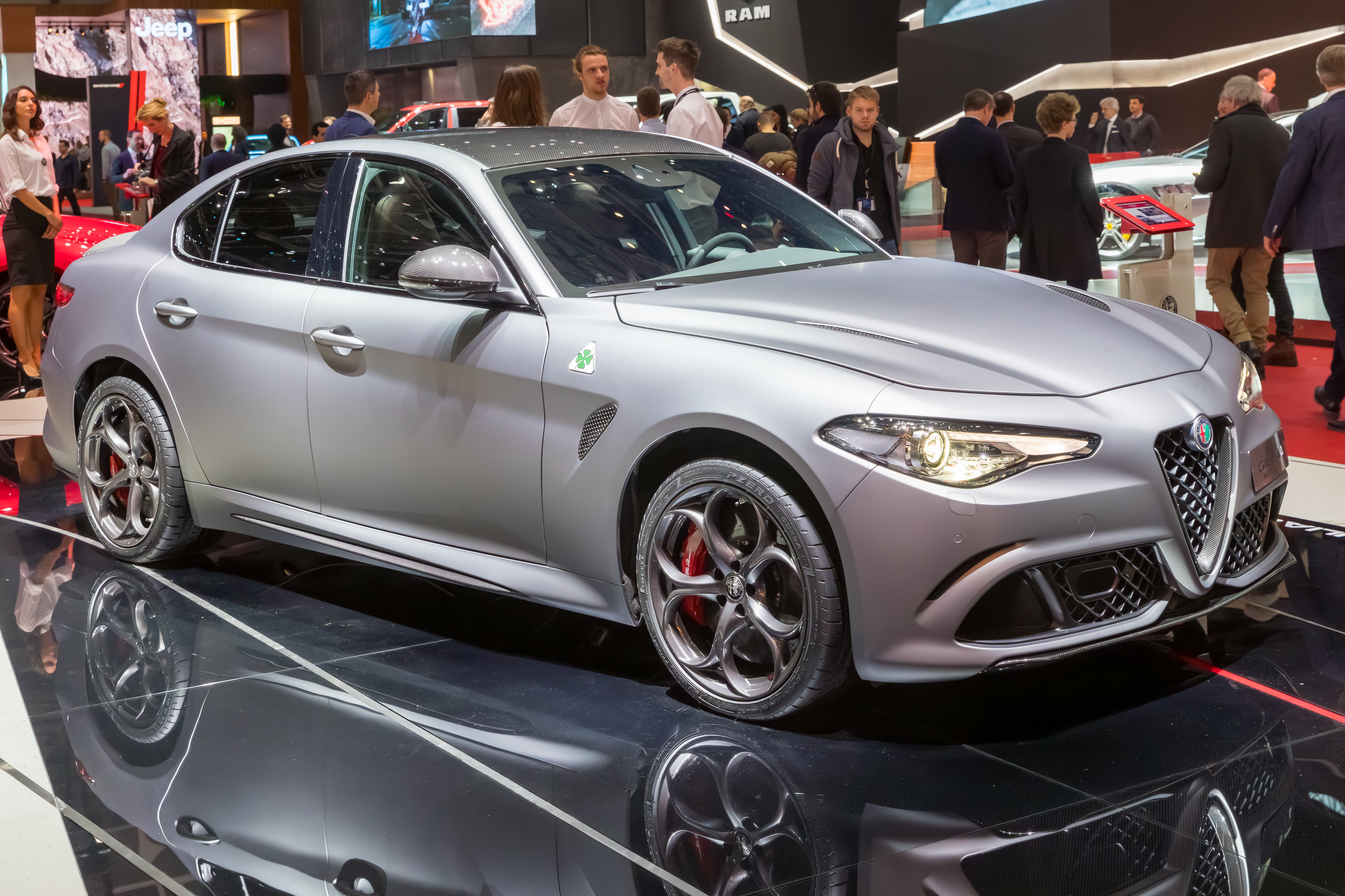 Geneva International Motor Show 2018